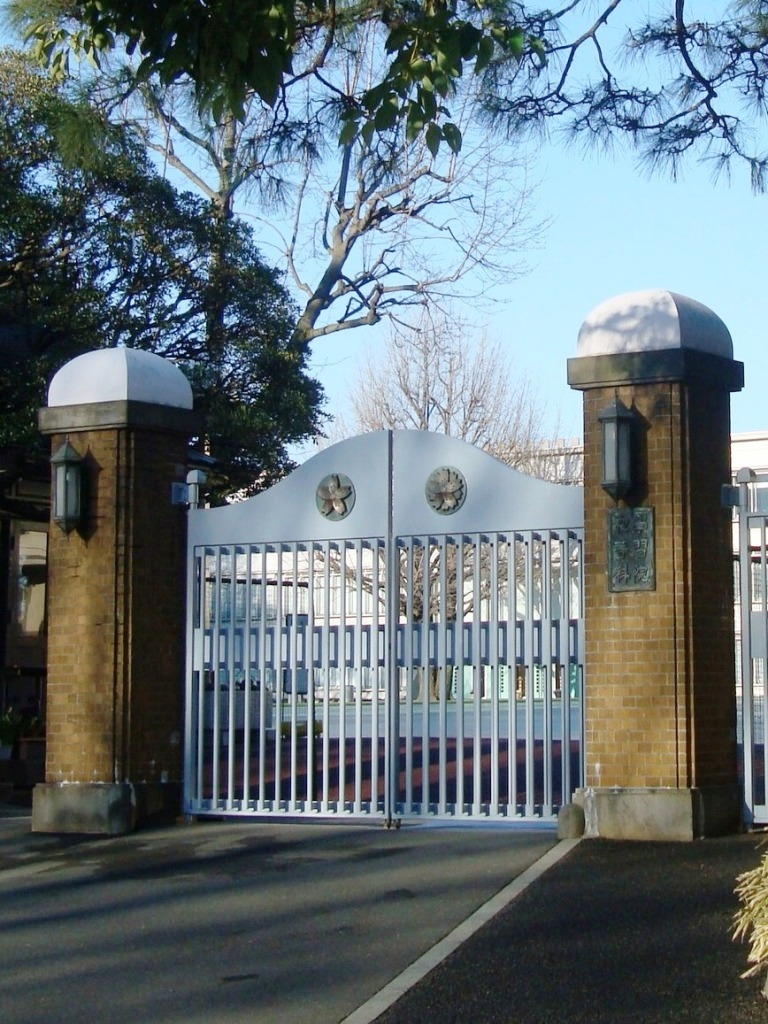 Gakushuin Primary School, Yotsuya, Tokyo